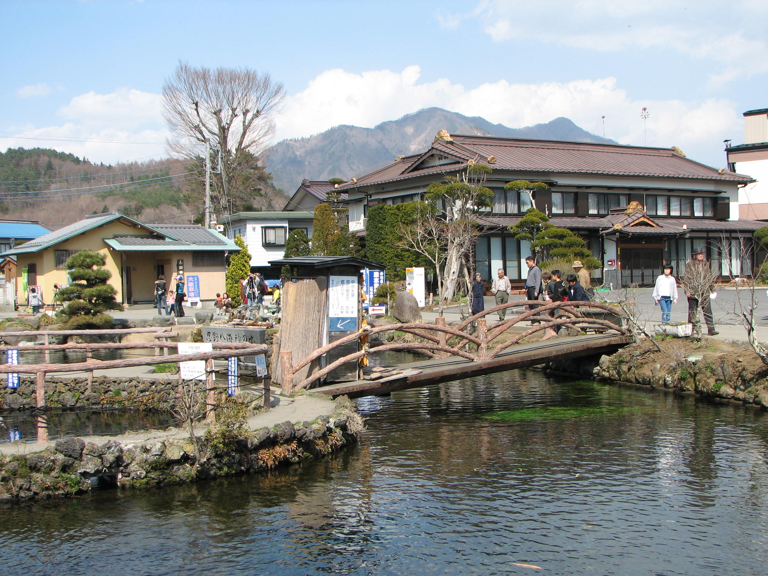 Oshino village, Minamitsuru District, Yamanashi Prefecture, Japan